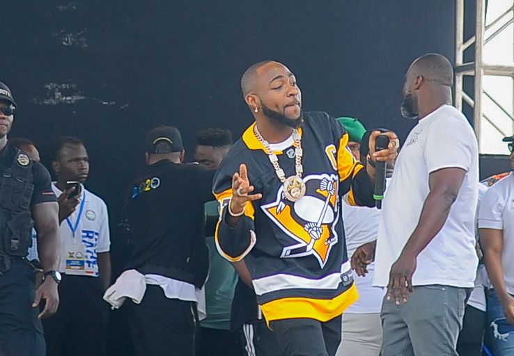 Davido performing at the Lagos city Marathon gala 2020